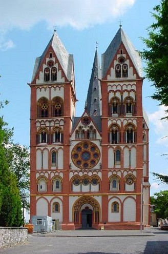 Limburger Dom Limburg an der Lahn